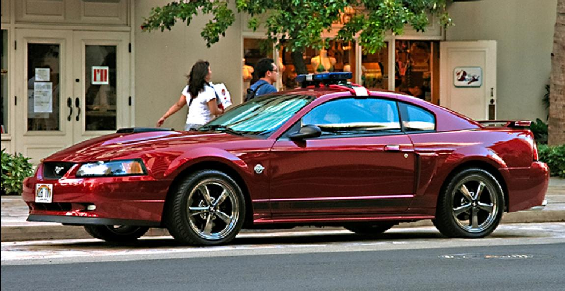 Honolulu Police car